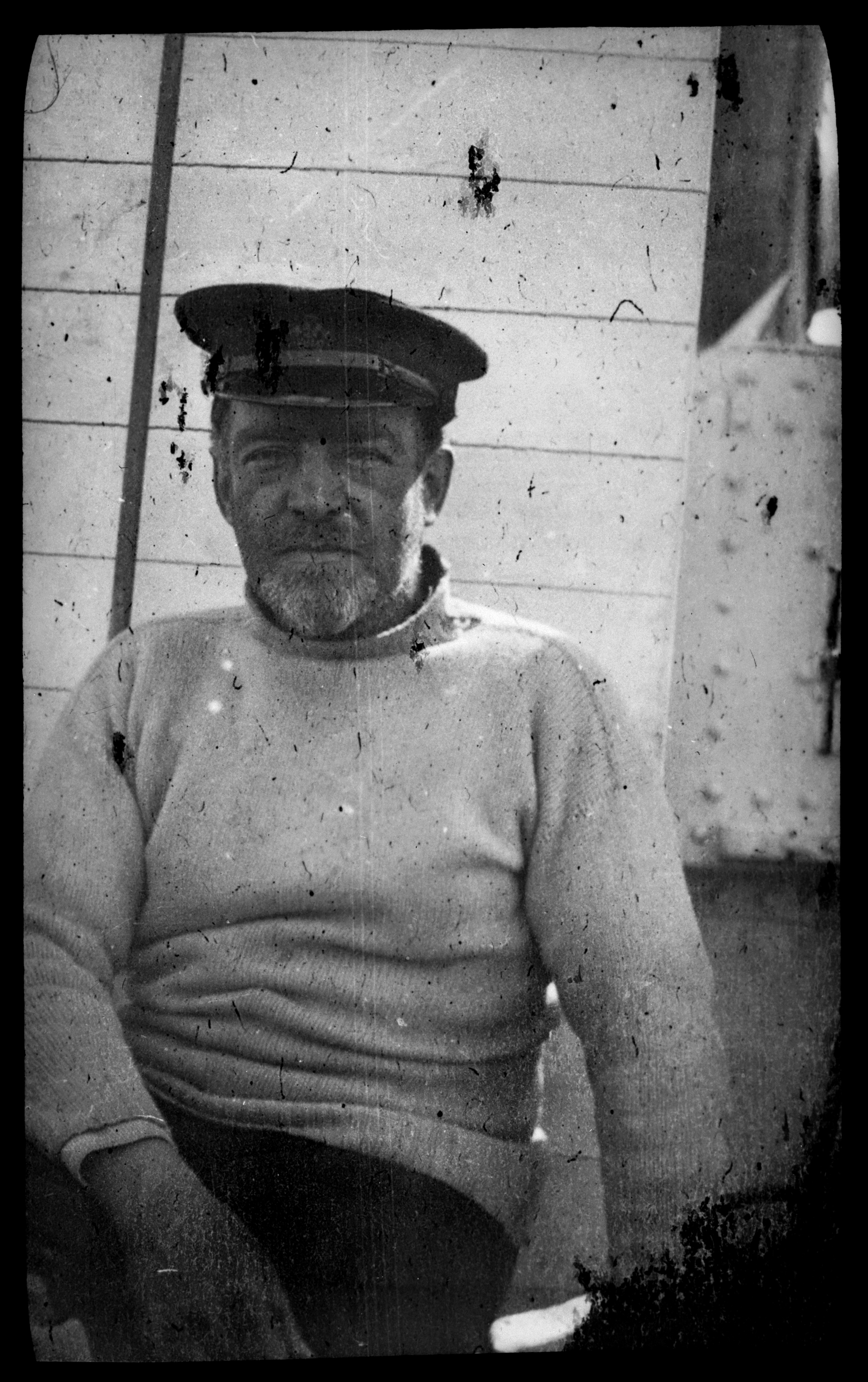 Sir Ernest Shackleton sitting on board the Antarctic exploration vessel Aurora.